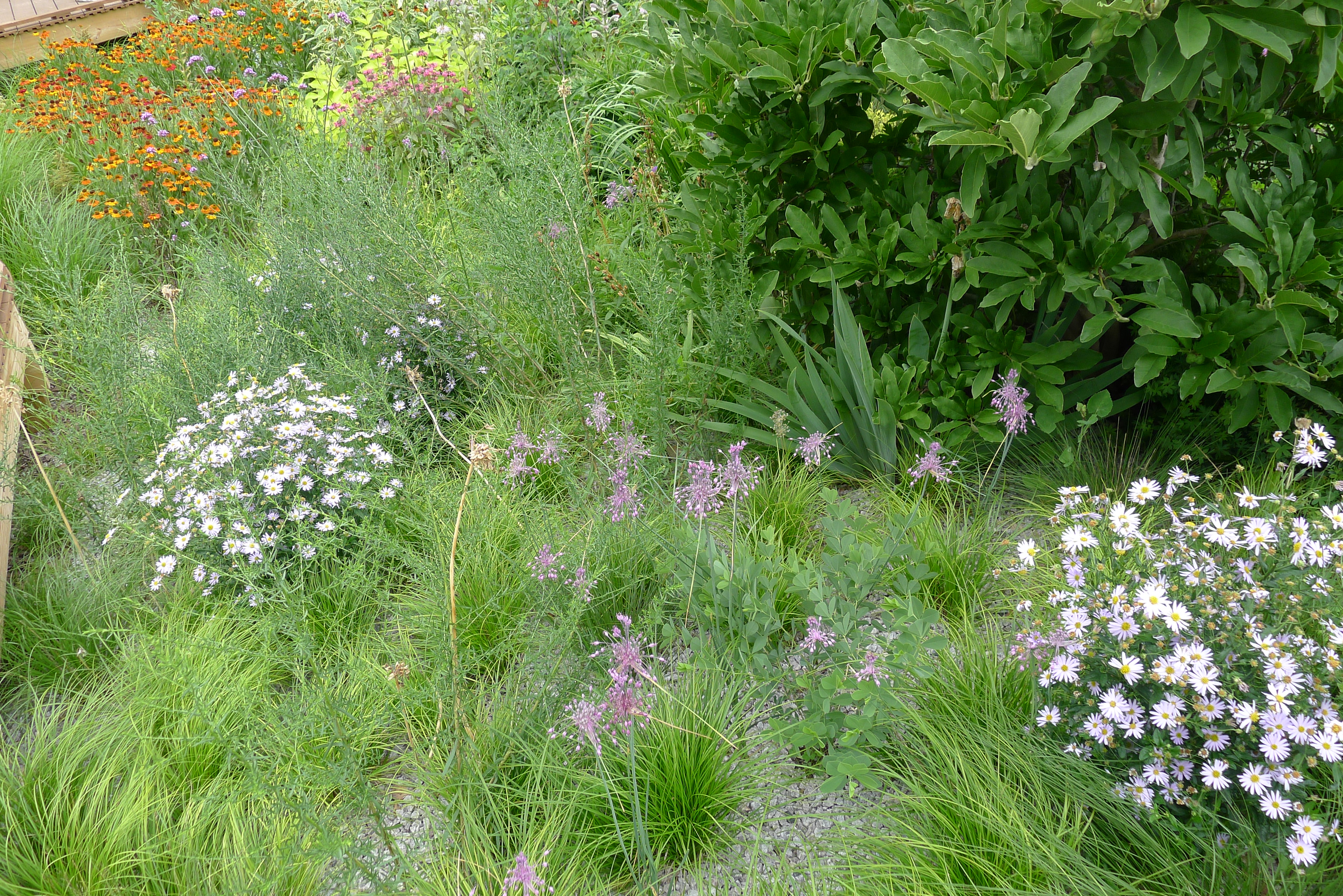 Meadow garden in the Allen Centennial Gardens on the campus of the University of Wisconsin-Madison